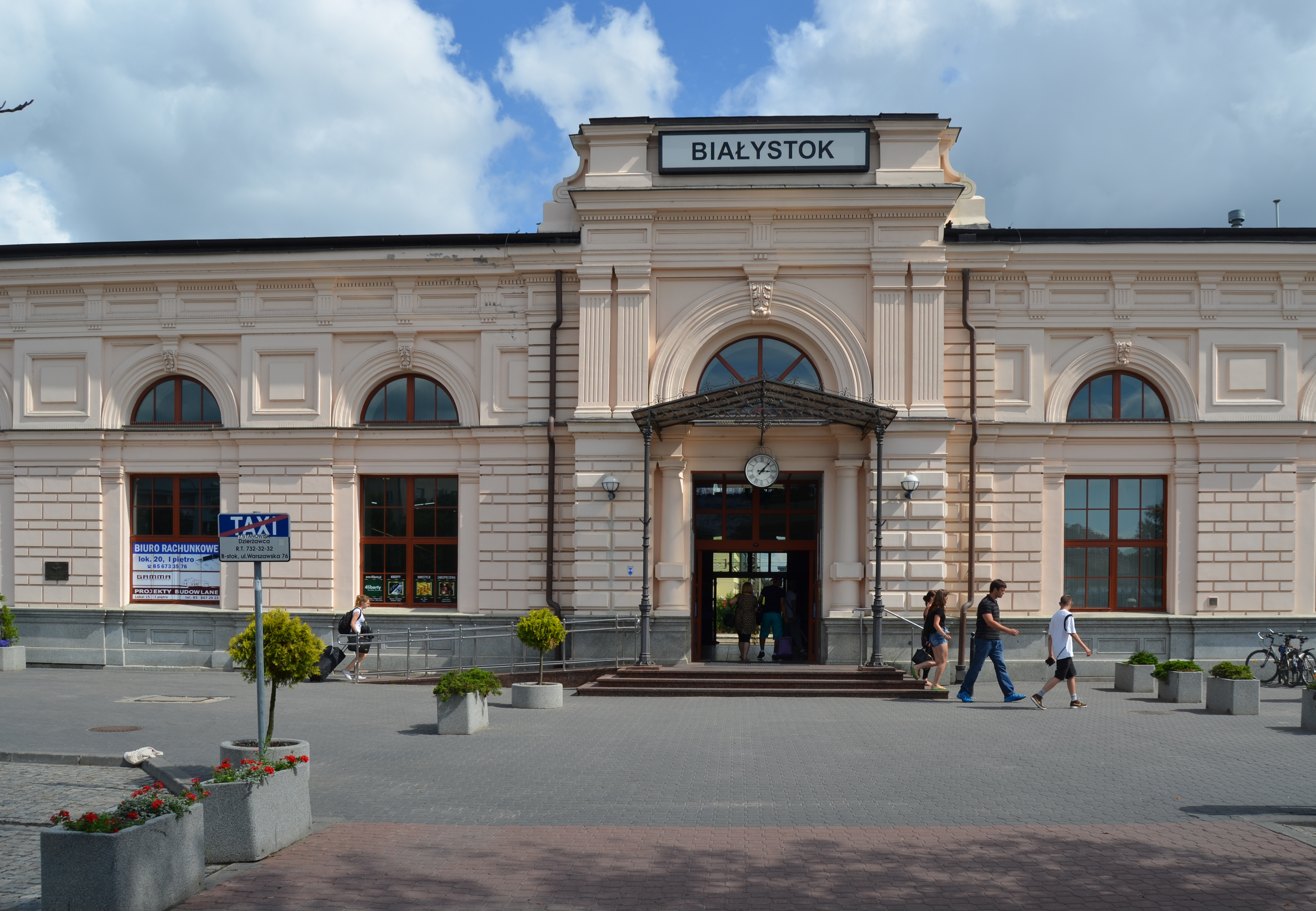 پښتو: Trip to Poland